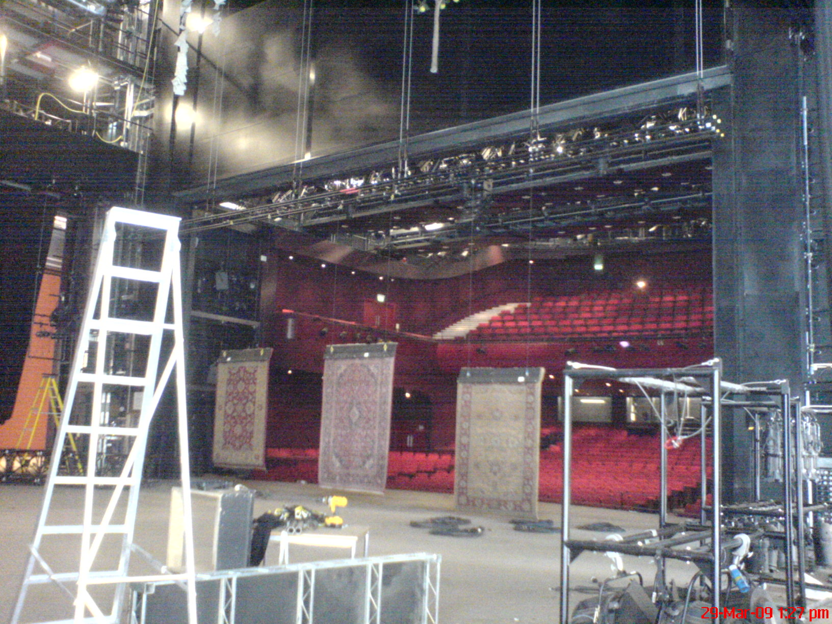 Curve theatre stage and auditorium from the corridor with the wall lifted.